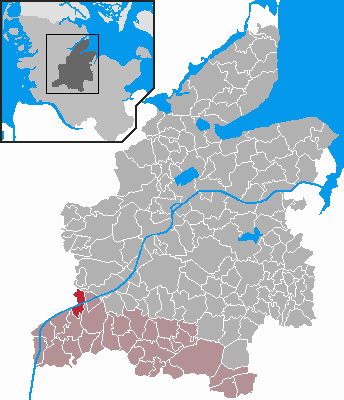 Locator maps of municipalities in Schleswig-Holstein - District Rendsburg-Eckernförde